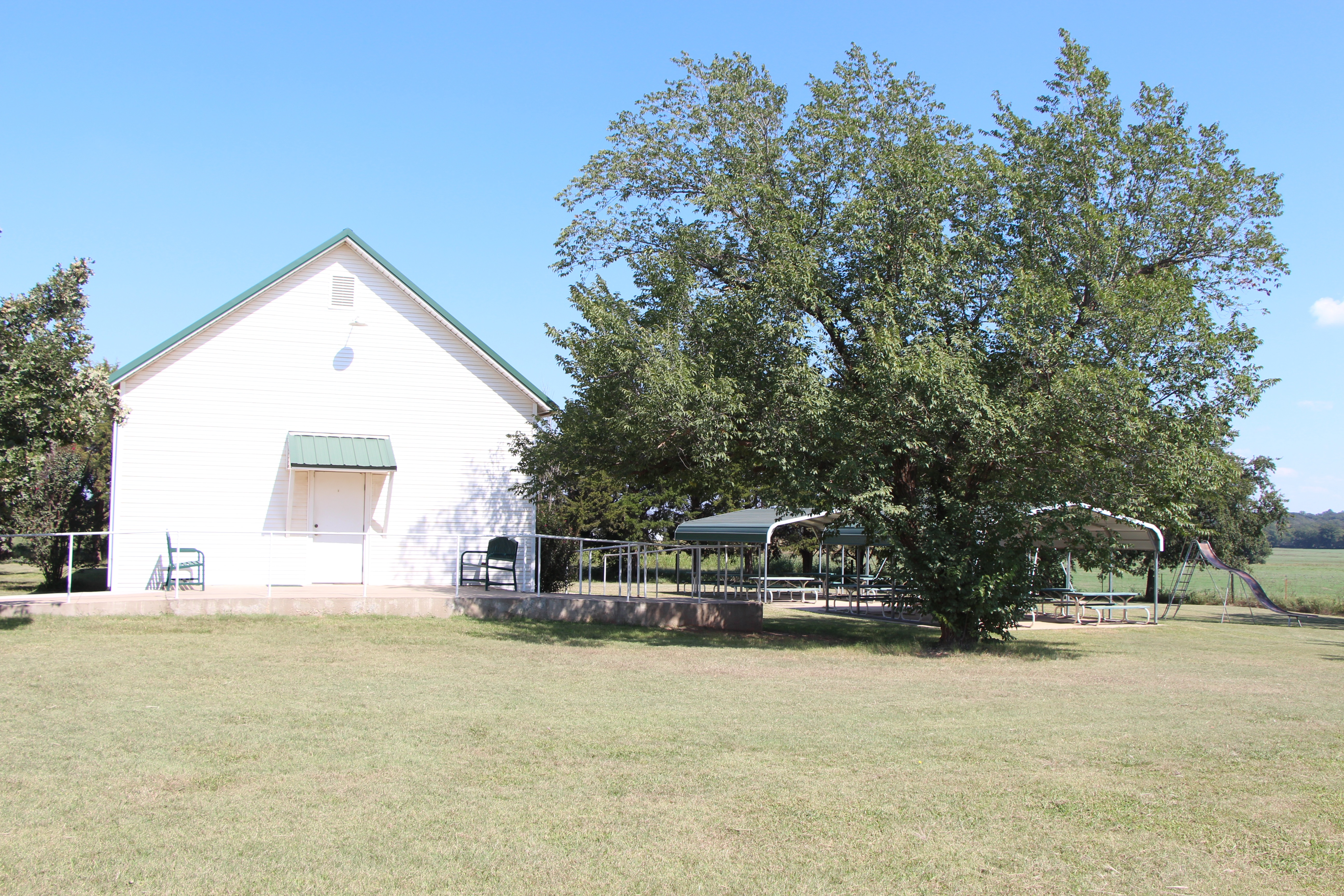 Cottonwood Community Center, Northwest of Stillwater Stillwater